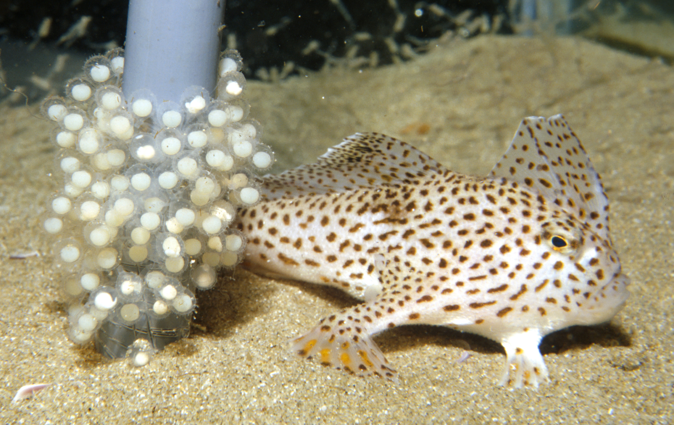 A female spotted handfish in laboratory aquarium with fully developed embryos one day before hatching. Handfish are being bred in captivity as part of a federally-funded recovery plan led by CSIRO Marine Research. Handfish are small, bottom-dwelling fishes that would rather 'walk' on their pectoral and pelvic fins than swim. They are native to Australia and five of the eight identified handfish species are found only in Tasmania and Bass Strait. The spotted handfish is endemic to Tasmania's lower Derwent River estuary. In 1996, the spotted handfish became the first Australian marine fish to be listed as endangered. Scientists, government and the community are involved in a federally-funded recovery plan for the spotted handfish led by CSIRO Marine Research. Photo credit: Mark Green, CSIRO Marine Research.